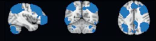 Computational-interactive network (CEN)